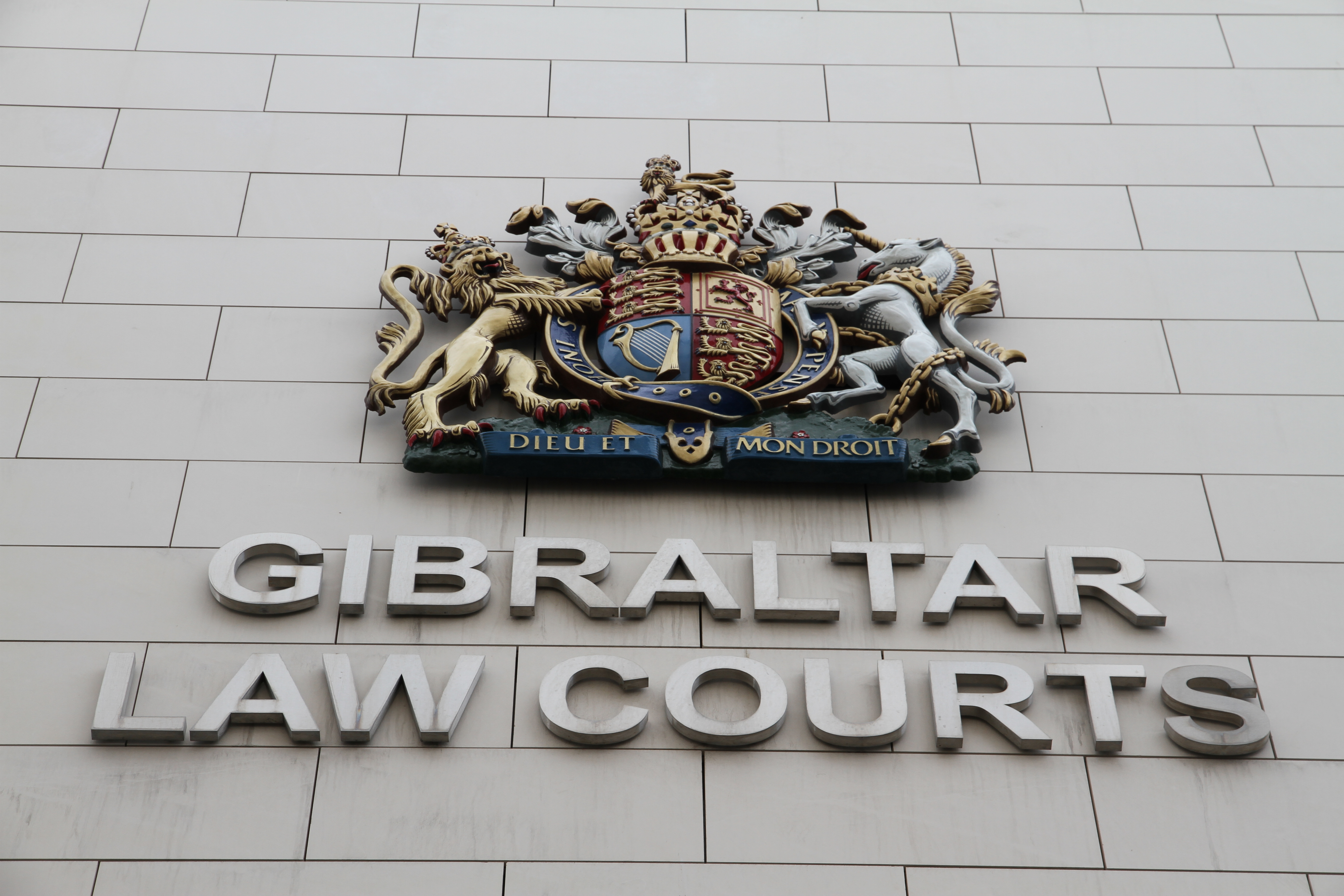 Gibraltar Law Courts pictures from Gibraltar